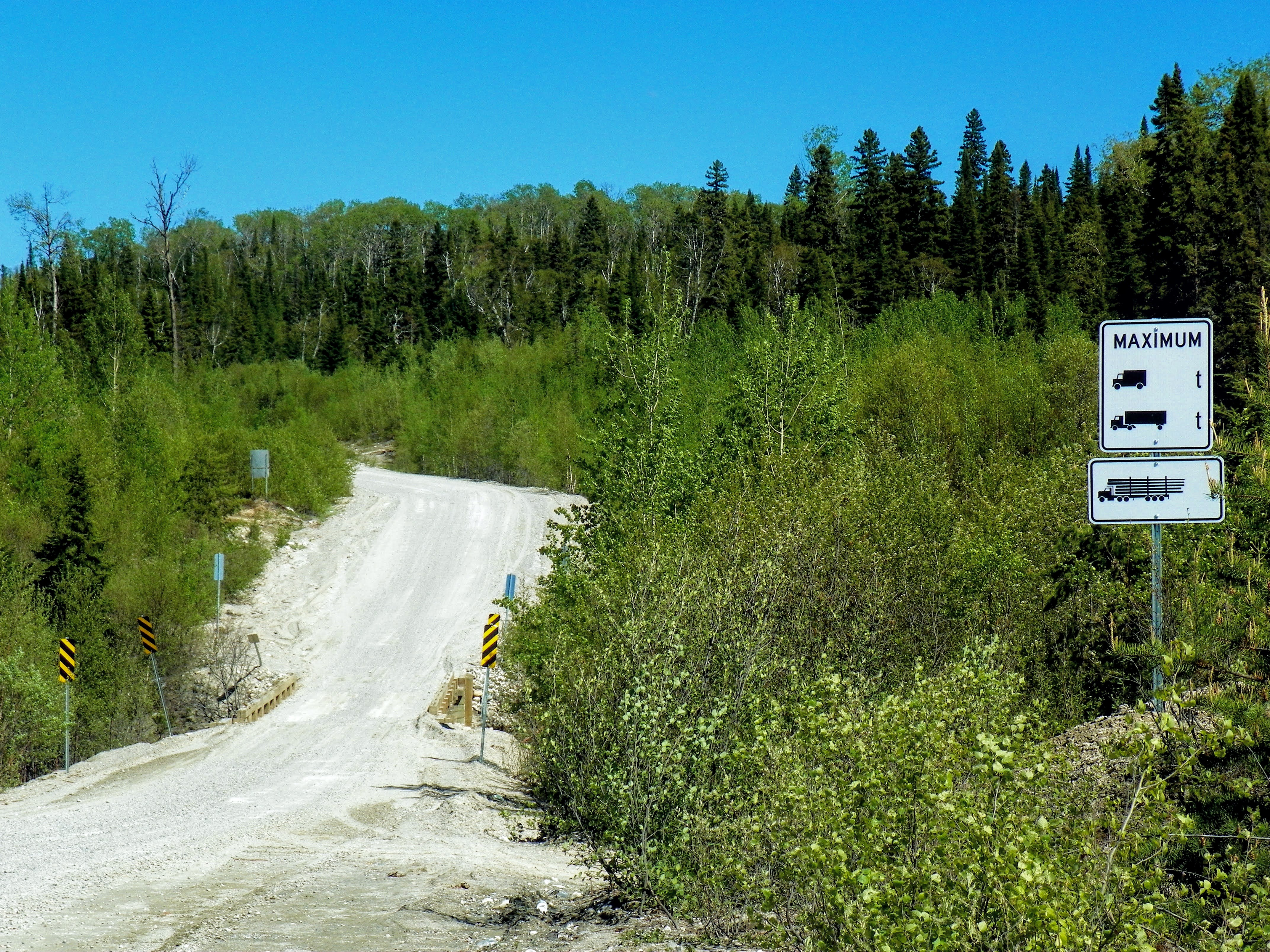 Charge limit-free bridge over Toussaint River on Forest Road 1046 near Obedjiwan (locality of Toskatciwan)